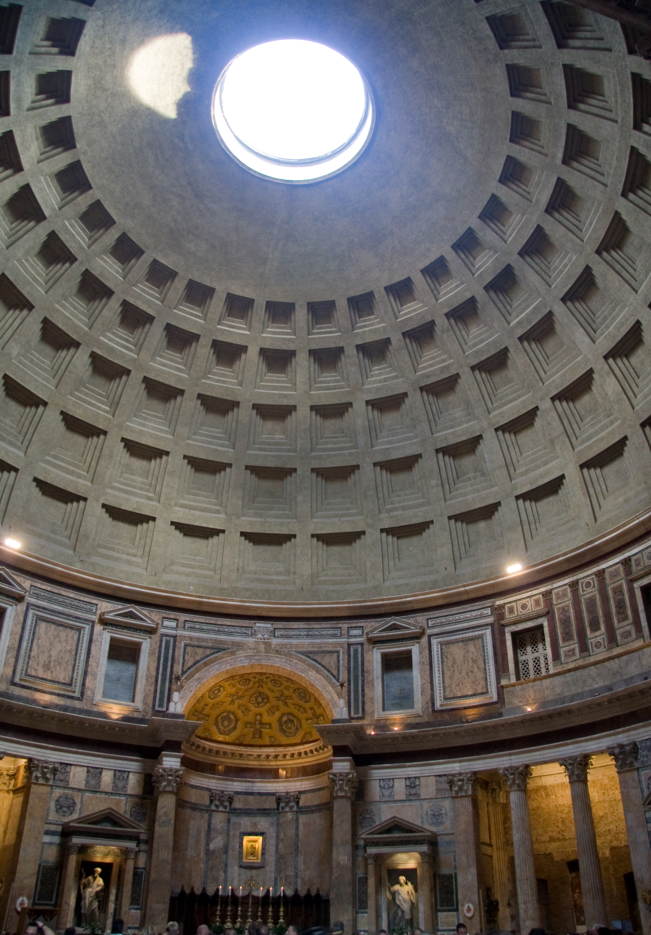 The Pantheon in Roma. Oculus